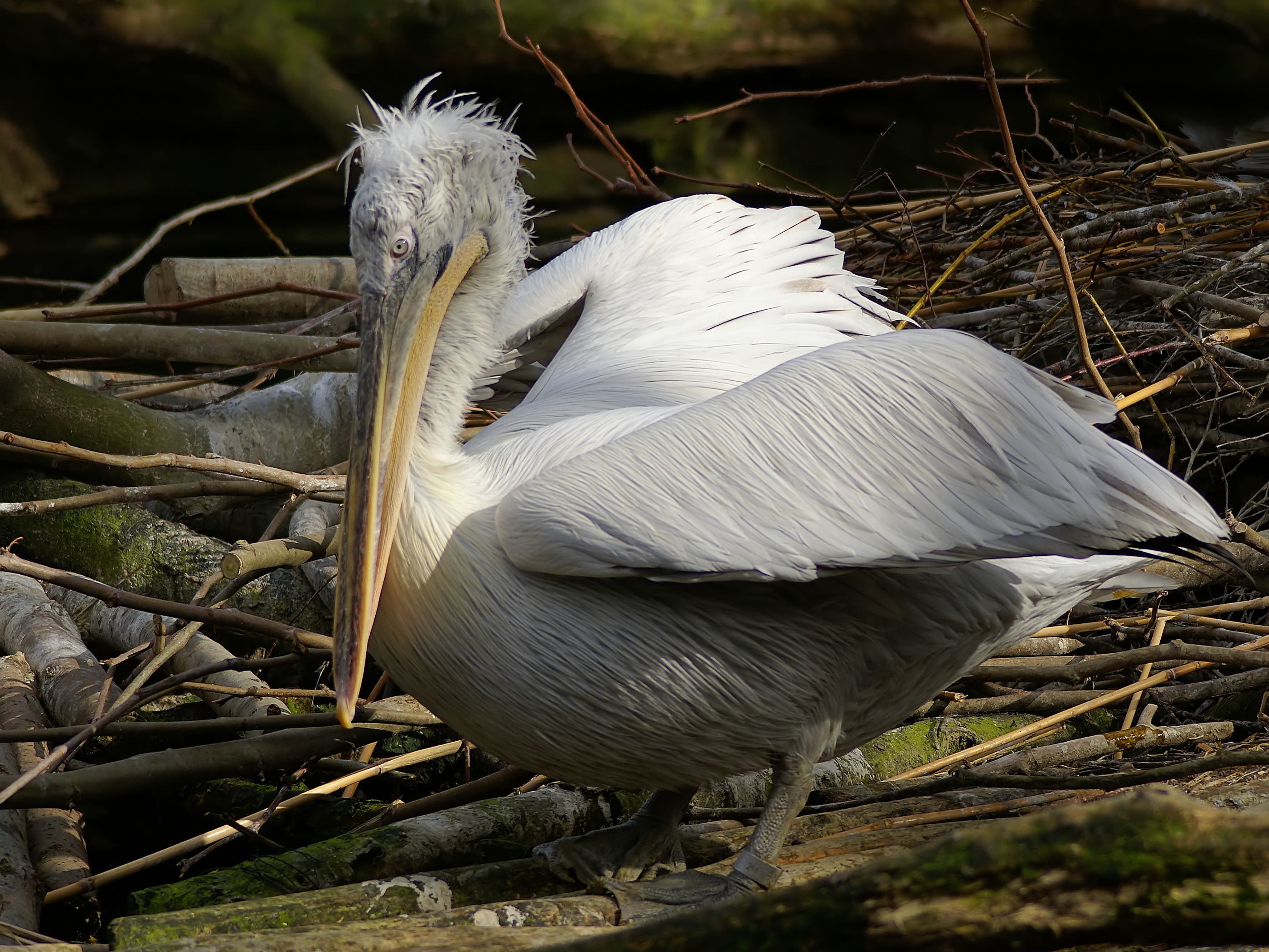 Dalmatian Pelican at the Antwerp Zoo, Belgium.